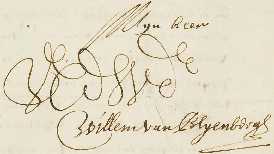 Willem van Blijenbergh: Signature letter 24 to Spinoza, 27 March 1665